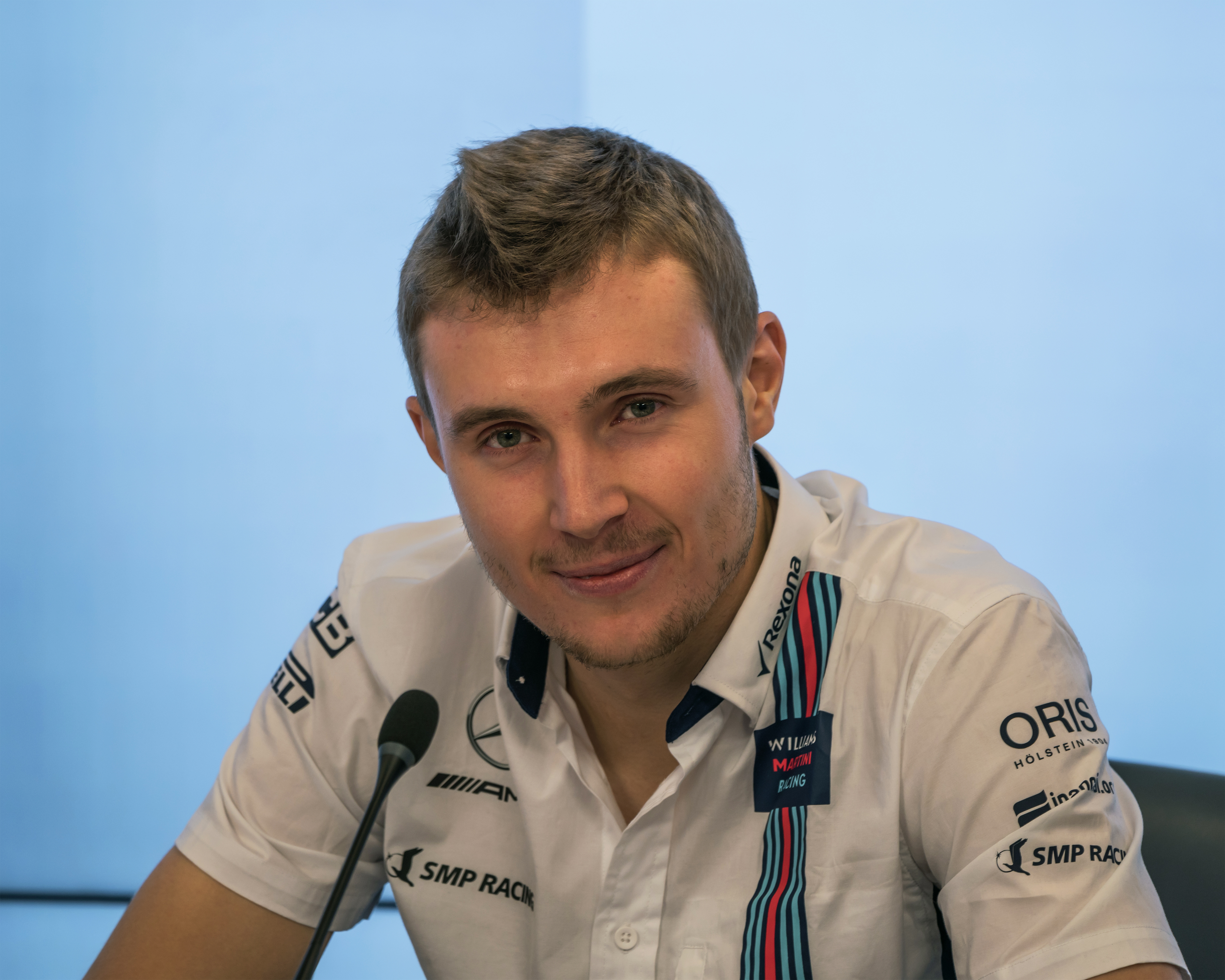 Sergey Sirotkin (b. 1995) is a Russian F1 driver. Photo taken at RT press center, Moscow.